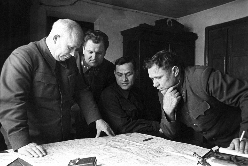 “The defenders of Stalingrad”. Right: General Andrei Yeryomenko, Commander of the Red Army's Southeast [Stalingrad] Front. Second right: Alexei Chuyanov, First Secretary of the Soviet Communist Party's Stalingrad Regional Committee. Third right: General Alexei Kirichenko, Member of the Military Council of Stalingrad Front in Charge of Military Logistics. Fourth right: Nikita Khrushchev, Member of Politburo of Central Committee of the Soviet Communist Party, First Secretary of Central Committee of the Communist Party of Ukraine.